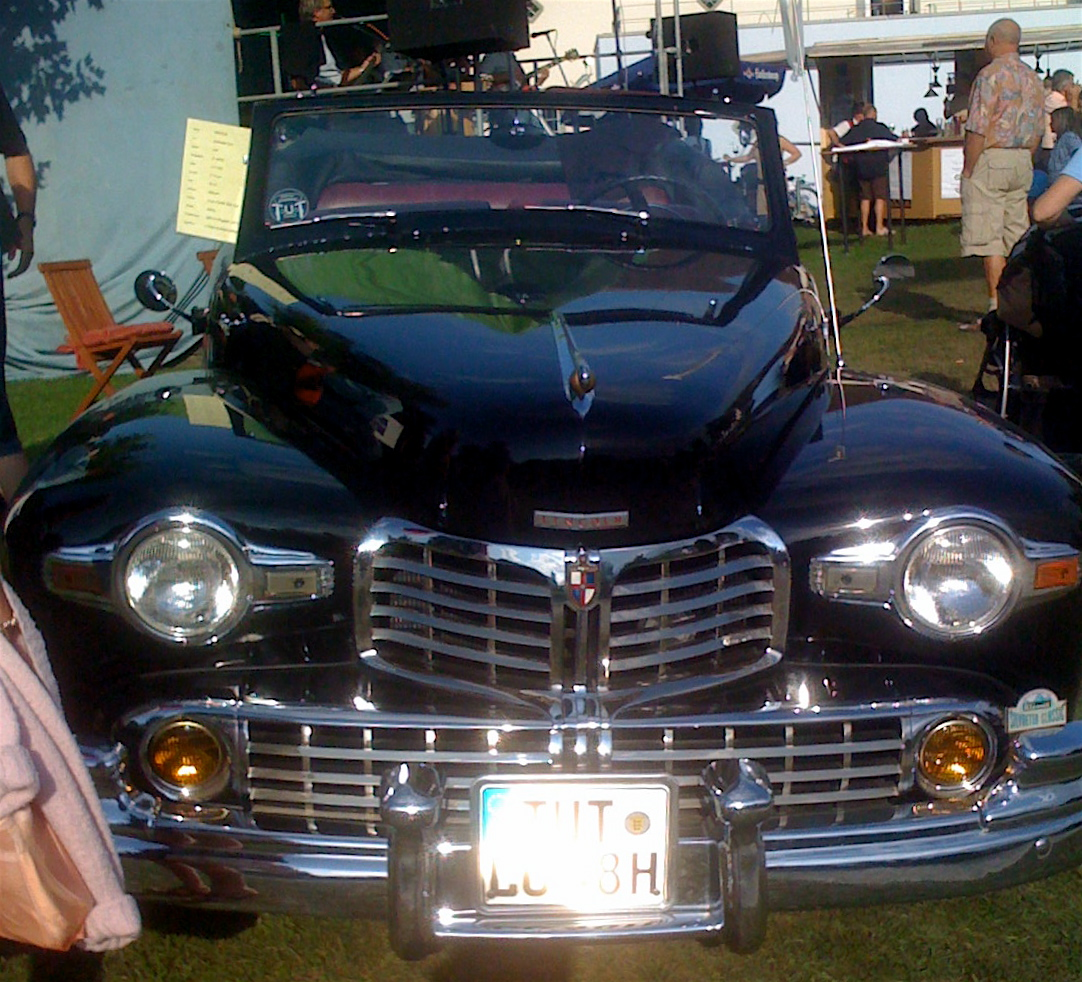 Lincoln Continental Conv. (1947)